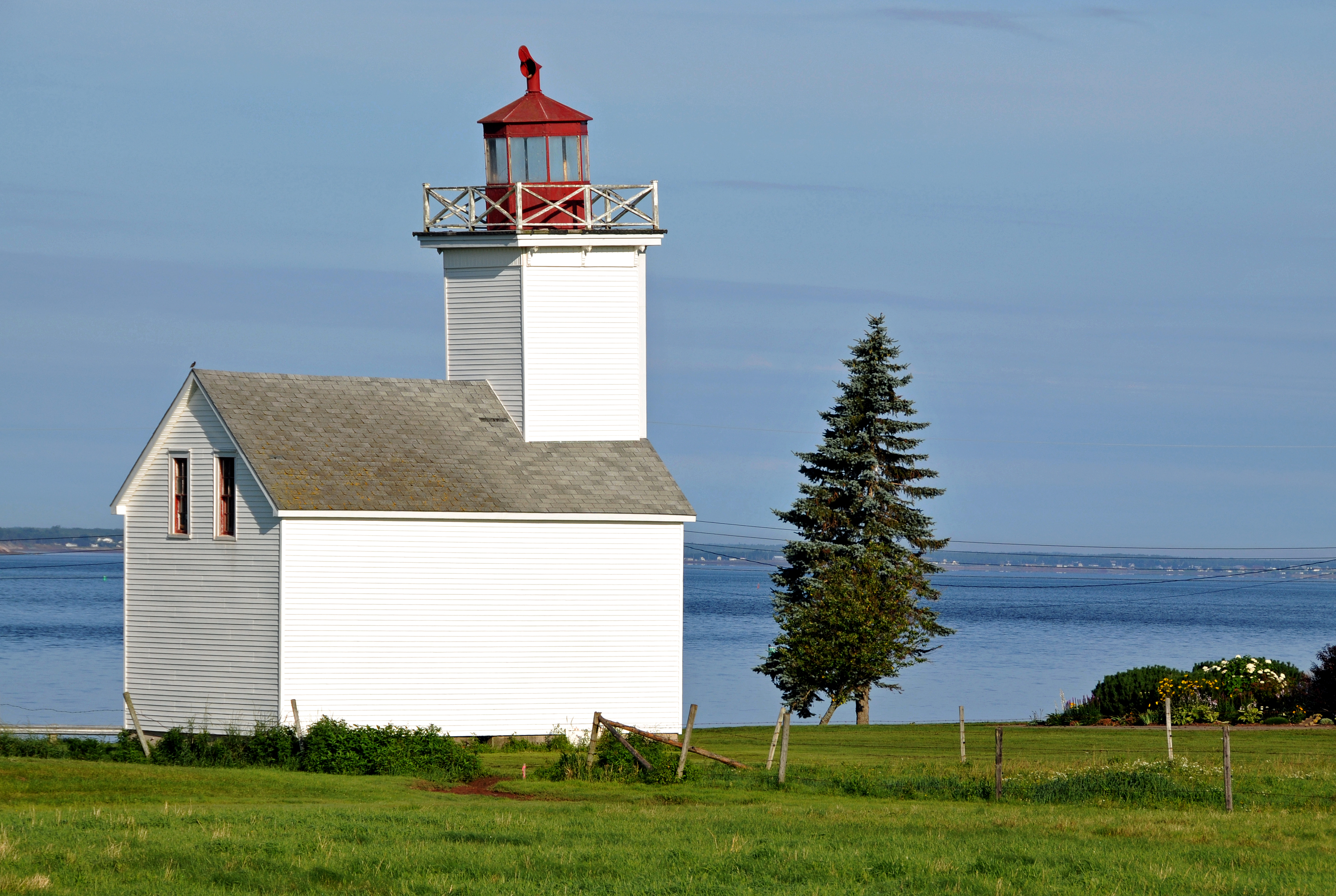 PLEASE, no multi invitations, glitters or self promotion in your comments. My photos are FREE for anyone to use, just give me credit and it would be nice if you let me know, thanks - NONE OF MY PICTURES ARE HDR. In 1871, Pugwash Lighthouse was established on Fishing Point at the entrance to Pugwash Harbor and the Pugwash River. The lighthouse, which was built in a “schoolhouse” design with a square tower rising from one end of the dwelling’s roof. This style of lighthouse is uncommon in Canada, but was frequently used in the United States. The narrow point of land on which the lighthouse stood was often subjected to erosion and flooding. A stone retaining wall was built along the bank in 1878, and many things had to be done every few years to protect the point from erosion. The gallery deck on top of the tower was rebuilt in 1880 so that a larger lantern could be used with a more powerful optic. Around 1960, a new tower was built on the point, and the old Pugwash Lighthouse was sold to the Mundle family, who moved the structure to their nearby farm. Location:Fishery (Seaman's) Point, east side of harbour entrance Standing:This light is still standing. Operating:This light is no longer operating. Began:1871 Year Lit:1871 Structure Type:Square wood tower on building, white Light Characteristic:Occulting White (1941) Tower Height:044ft feet high. Light Height:048ft feet above water level.